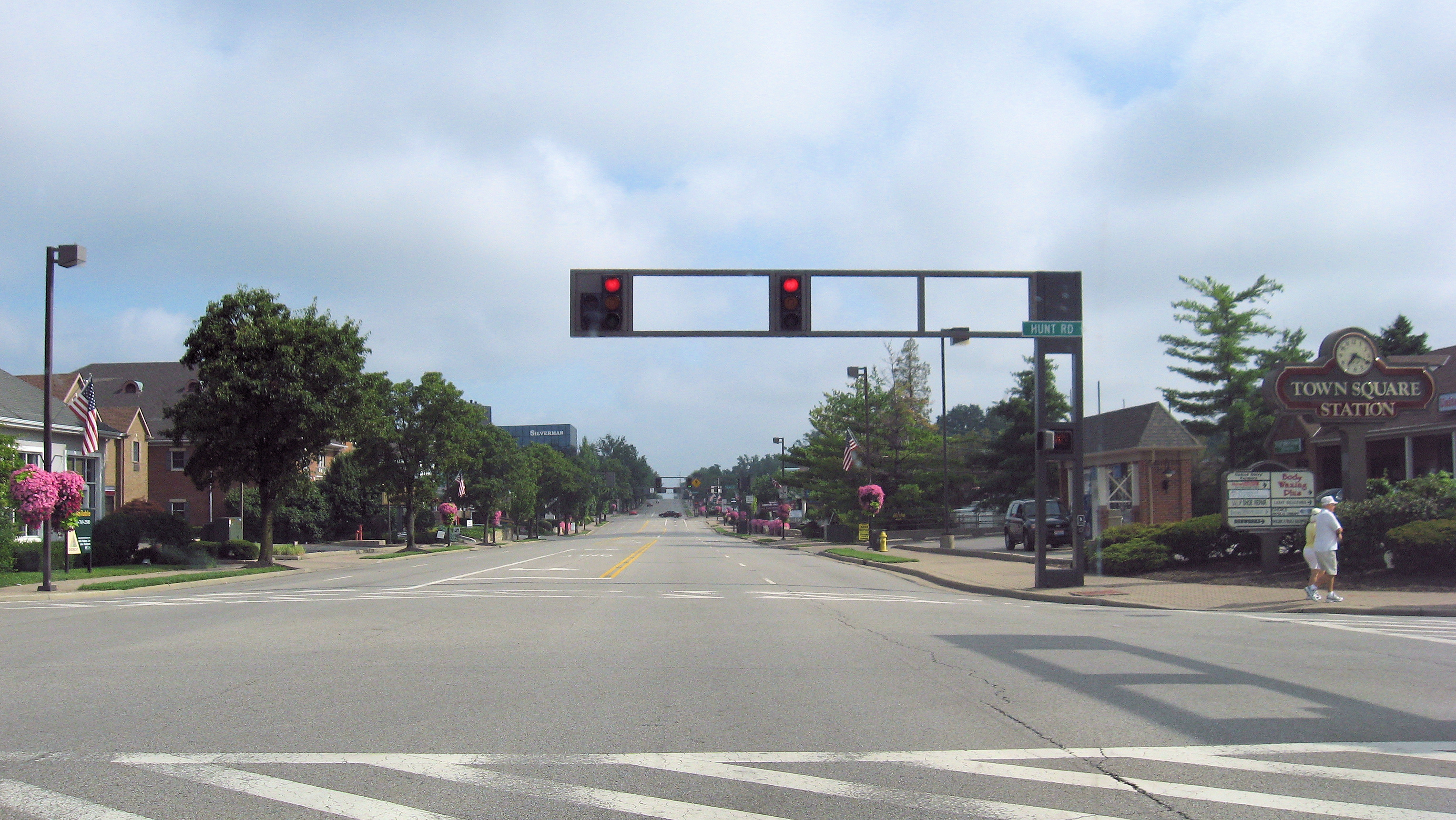 Downtown Blue Ash, Ohio, USA, at the intersection of Hunt and Kenwood